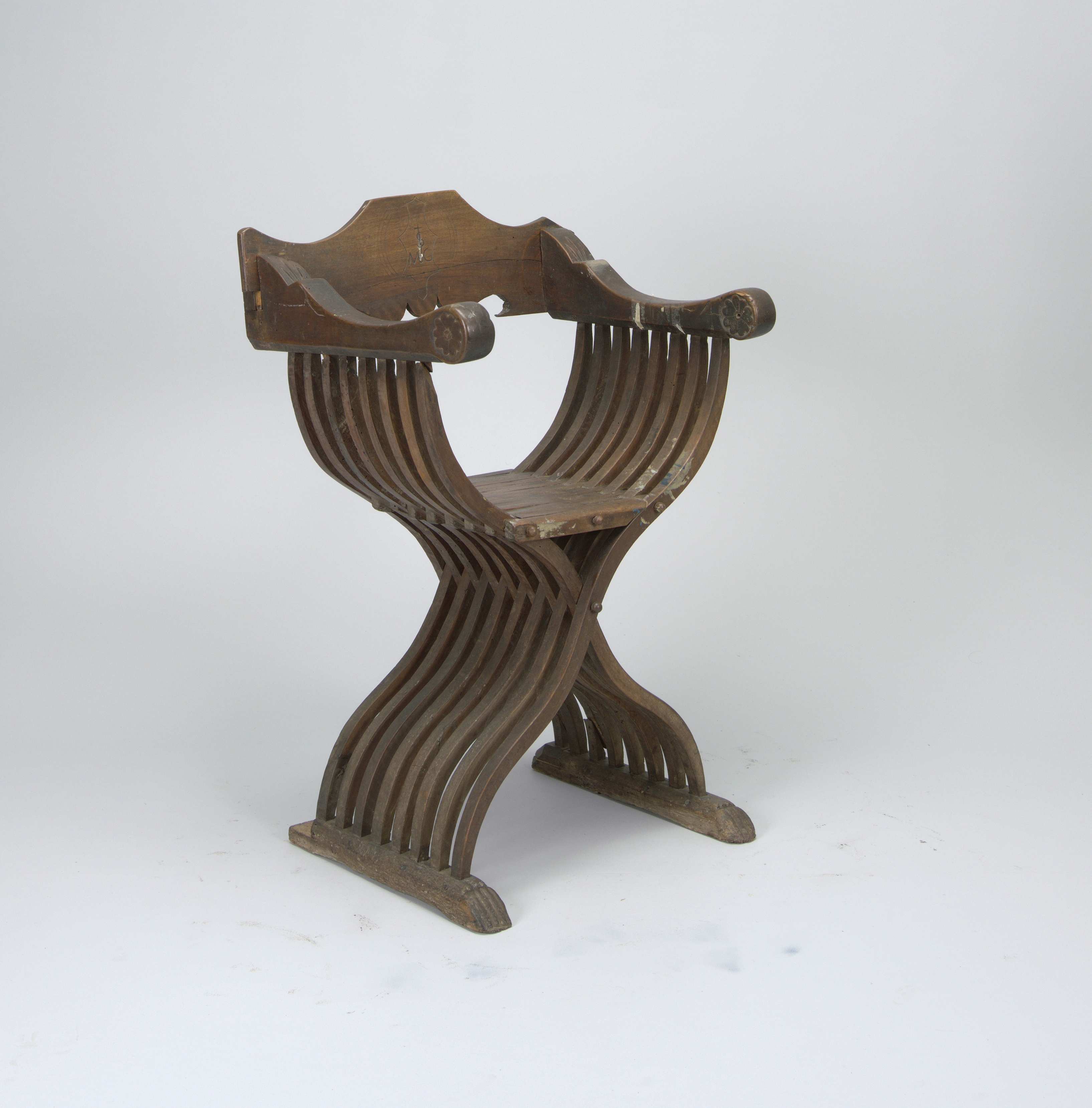 FoldingX-frame arm chair